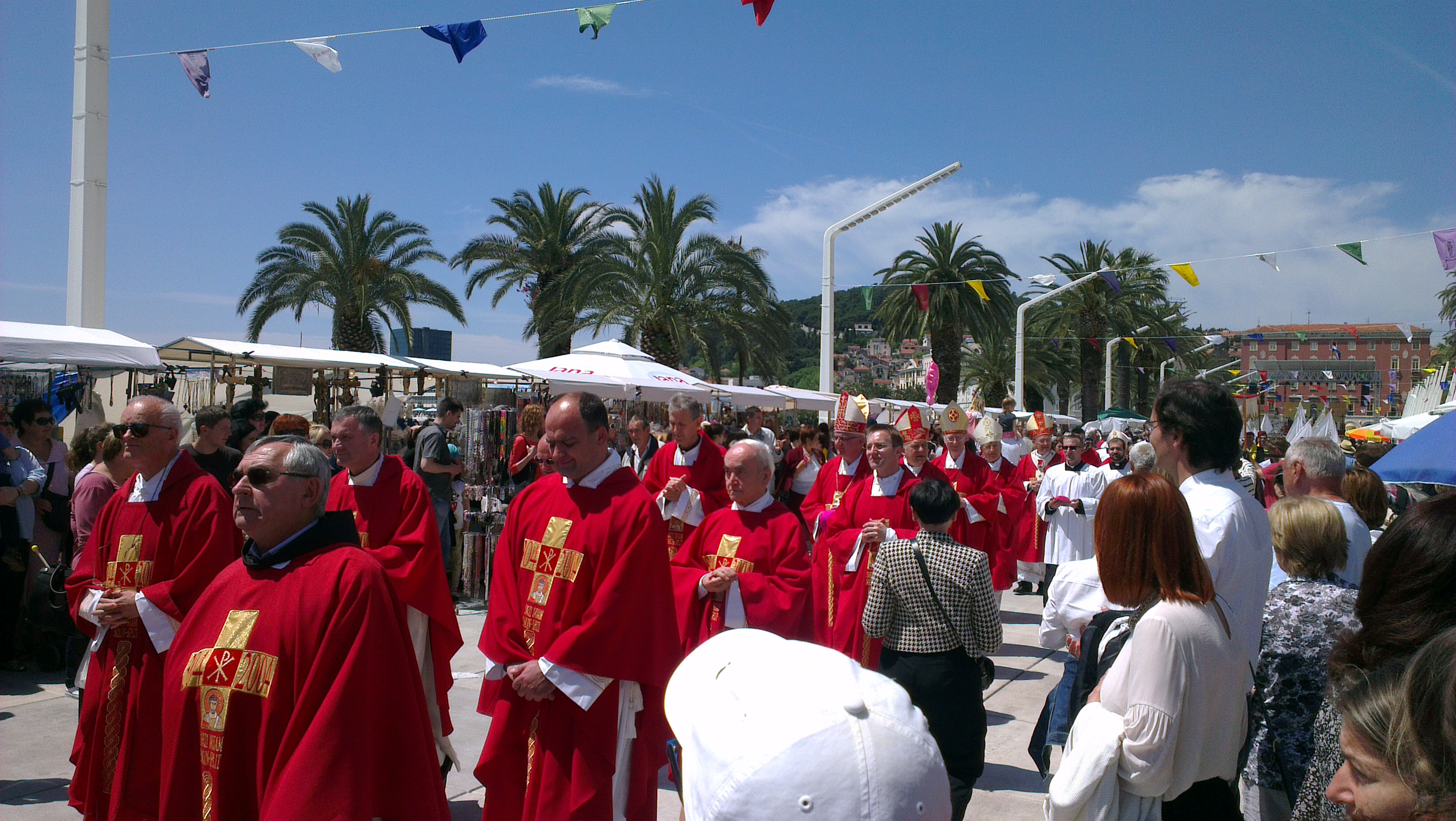 Sudamja